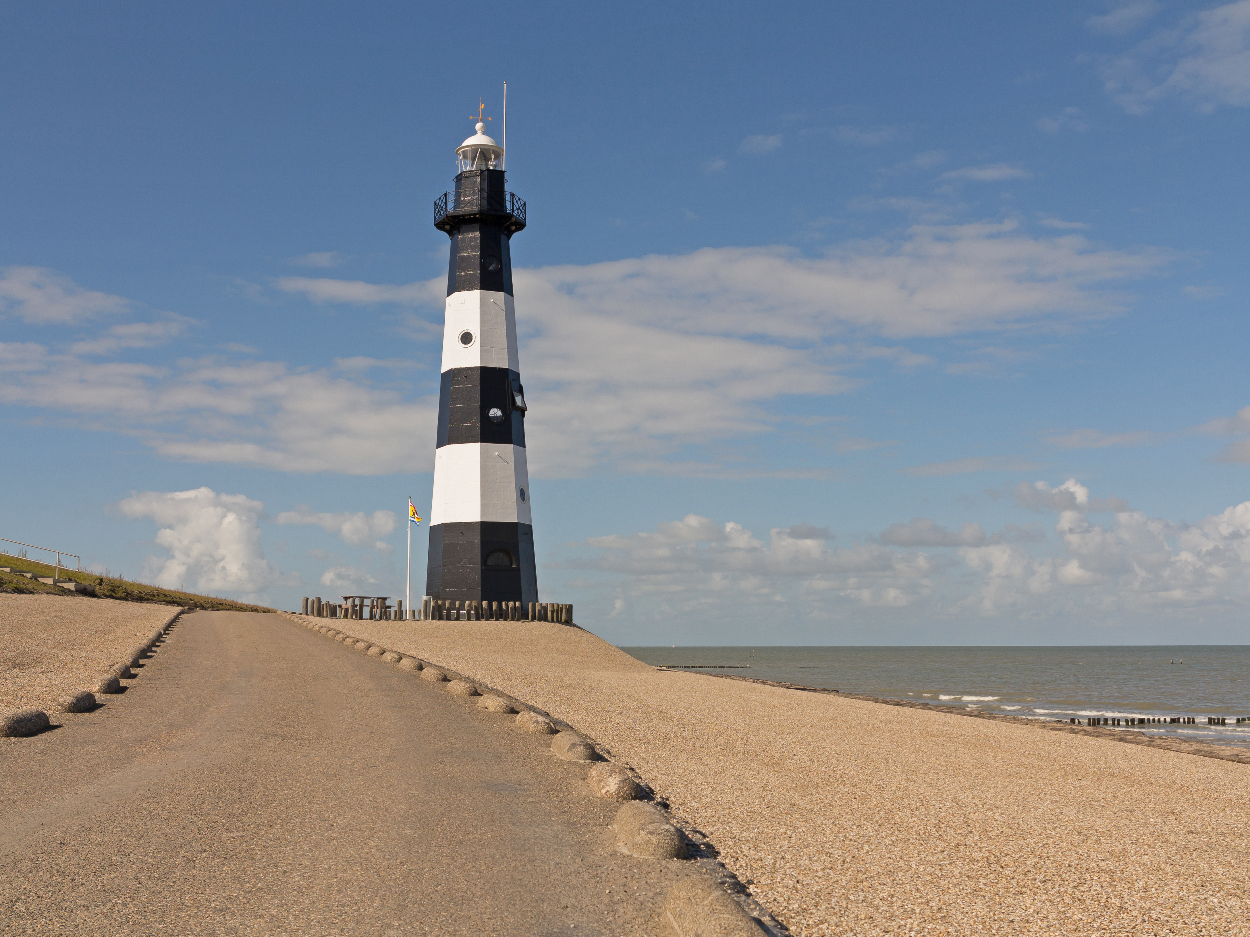 Nieuwe Sluis, lighthouse